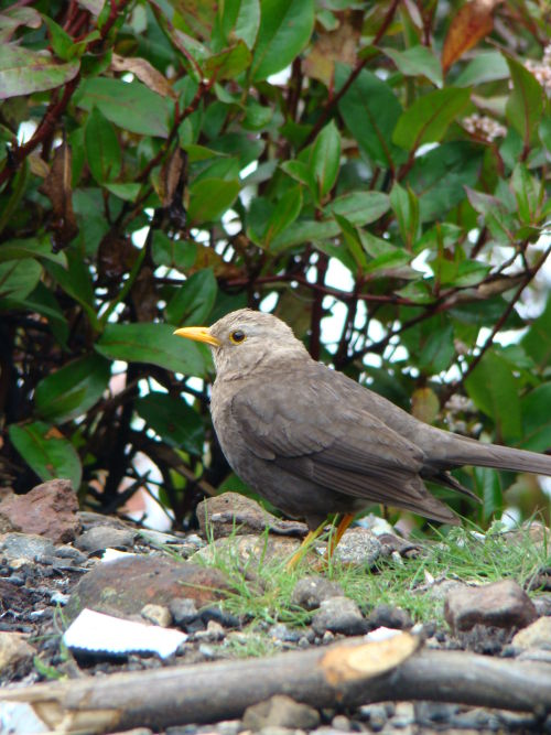 Turdus poliocephalus stresemanni (Anis Jawa)